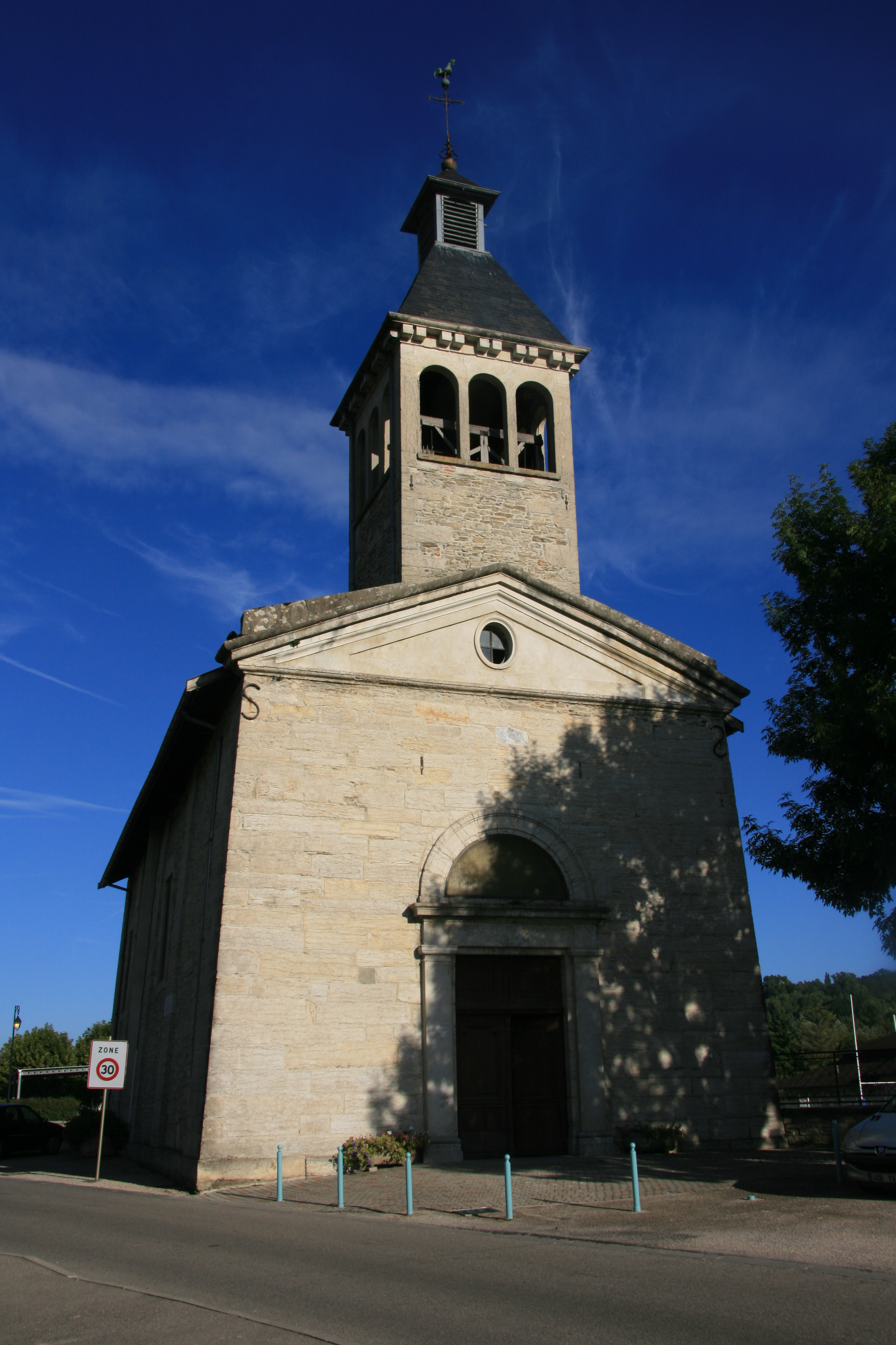 Main church of the commune of Saint Savin, Isère, France.